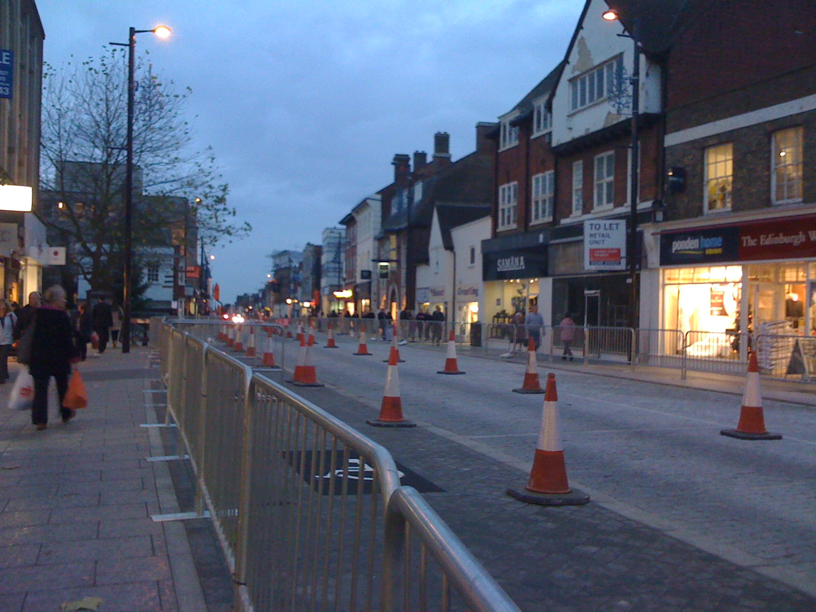 Brentwood's high street during a redevelopment scheme in November 2009